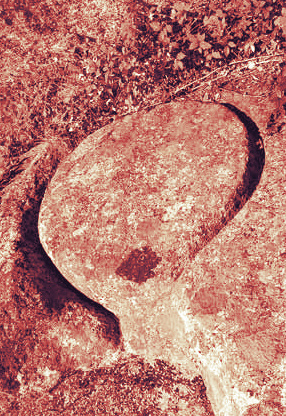 Momini skali stone Starosel BG